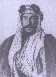 Sheikh Mubarak Sabah Al-Sabah, Mubarak Al-Sabah, Sabah